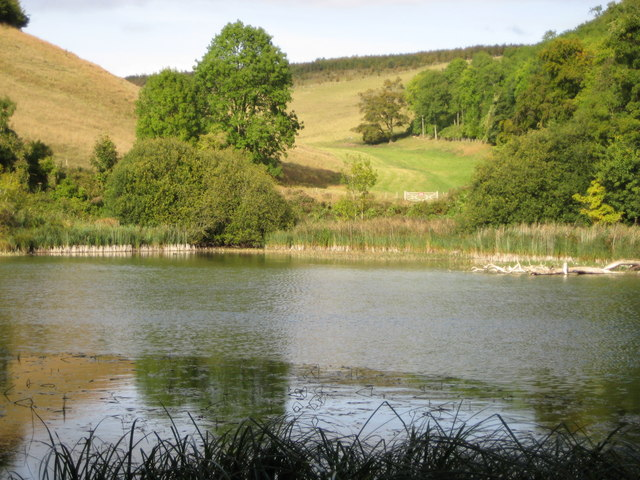 Arundel: Swanbourne Lake This was taken viewed looking across the lake from Mill Hanger towards a classic chalk landscape dry valley on the other side.